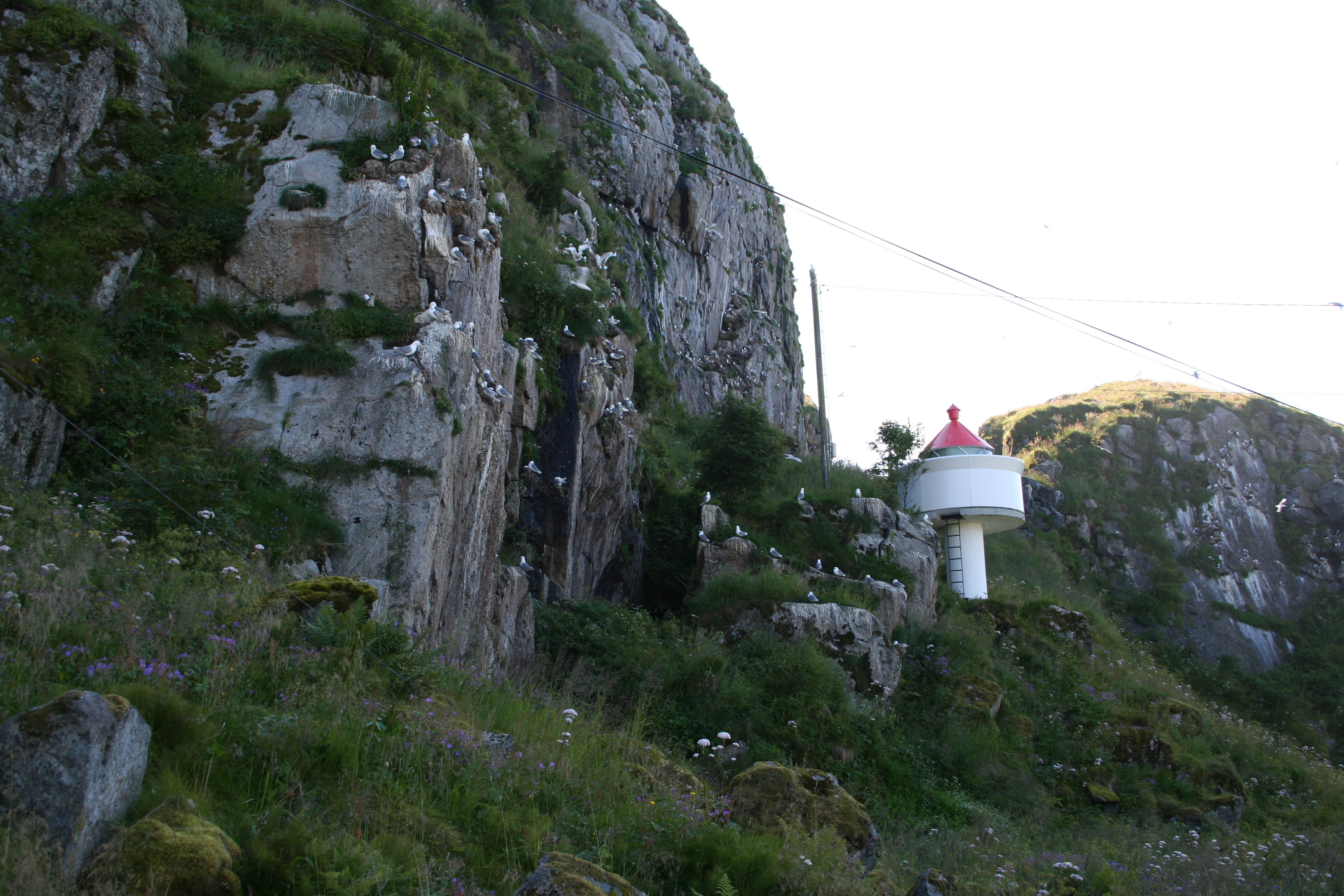 Bird mountain in Nykvåg in Bø, Nordland, Norway. This photo was taken by me